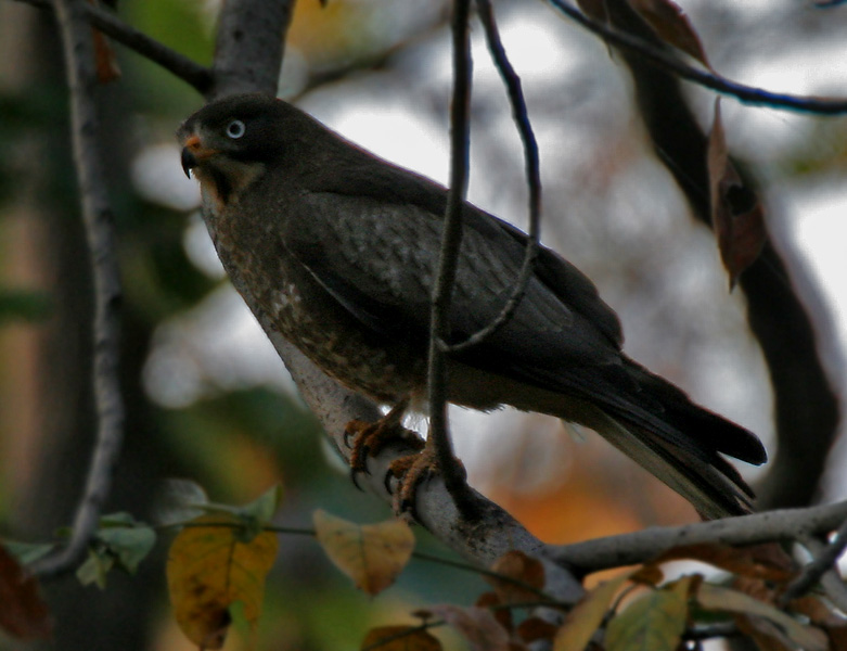 White-eyed Buzzard Butastur teesa in Kawal Wildlife Sanctuary, Andhra Pradesh, India.